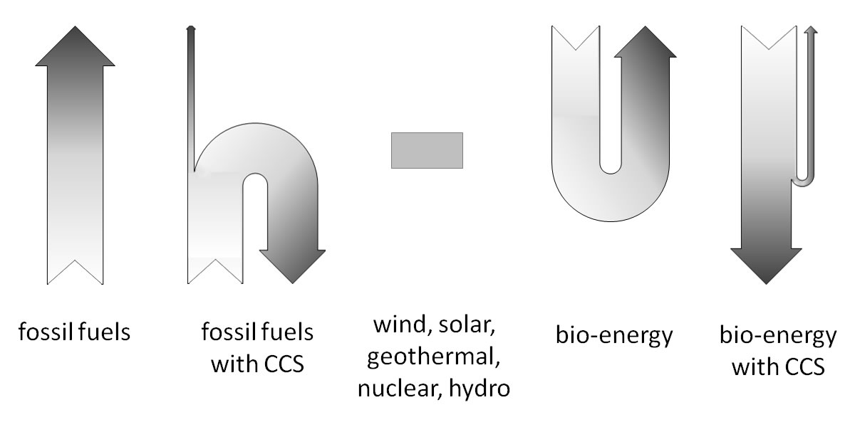 Carbon flow schematic of different energy source, including systems with carbon capture and storage